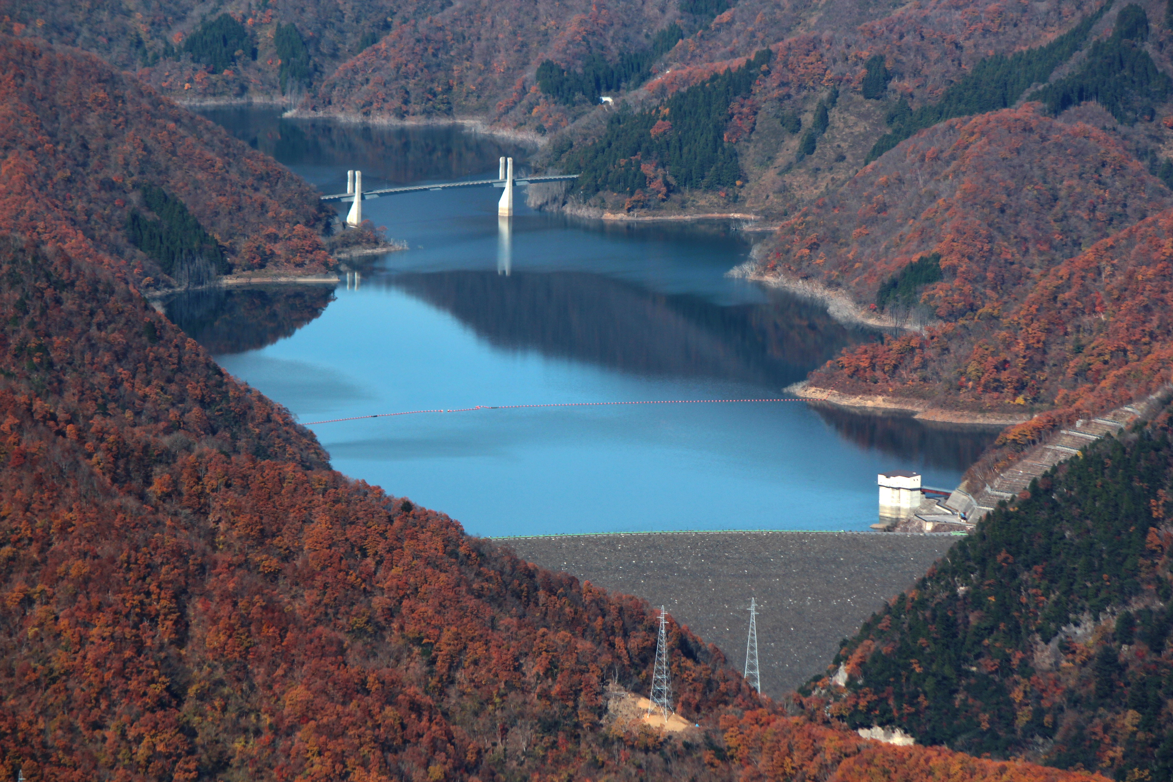 Tokuyama Dam and Tokunoyamahattoku Bridge seen from Mount Hanabusa in Ibigawa, Gifu prefecture, Japan.